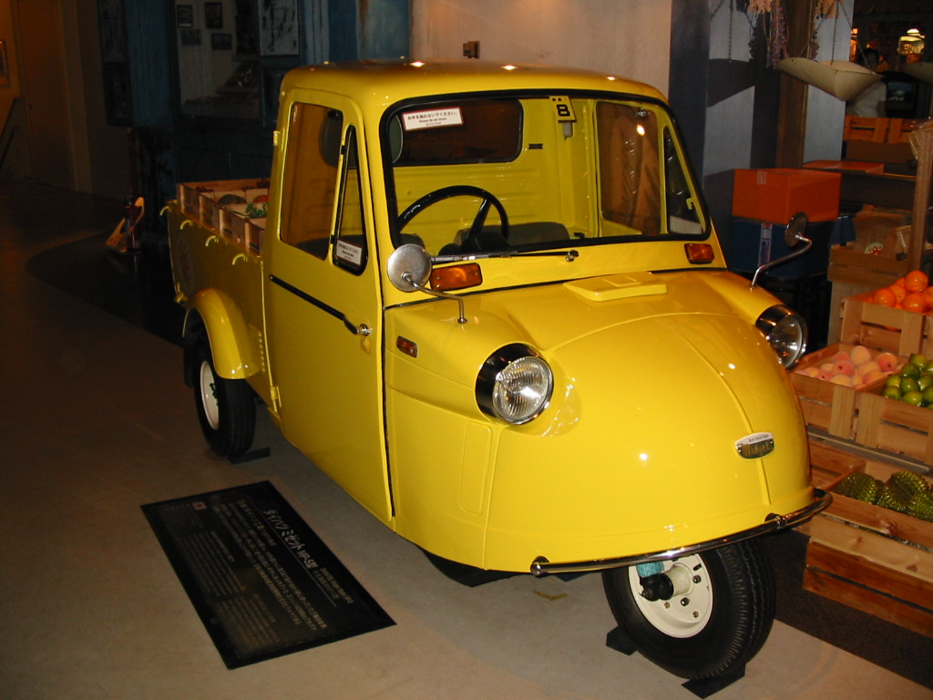 Daihatsu Midget taken in Showroom of Toyota -MEGAWEB